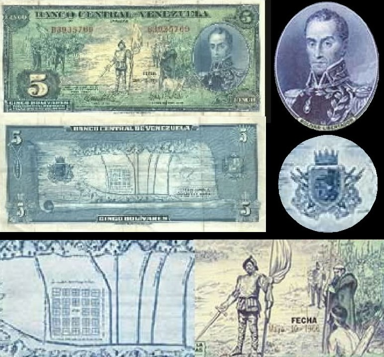 Primer Billete de 5 bolivares del BCV